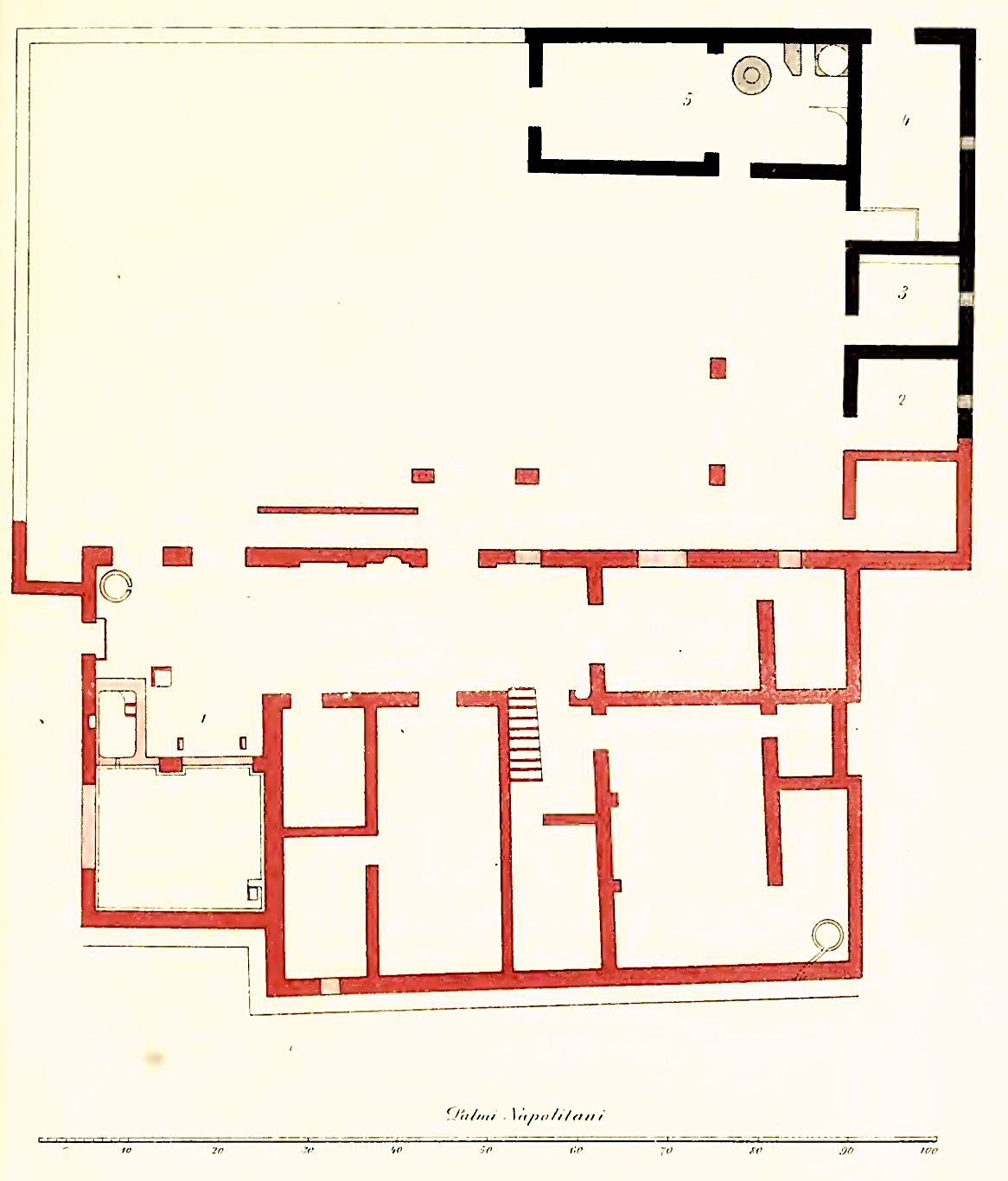 Plan Villa detto Carmiano in Masseria Buonodono